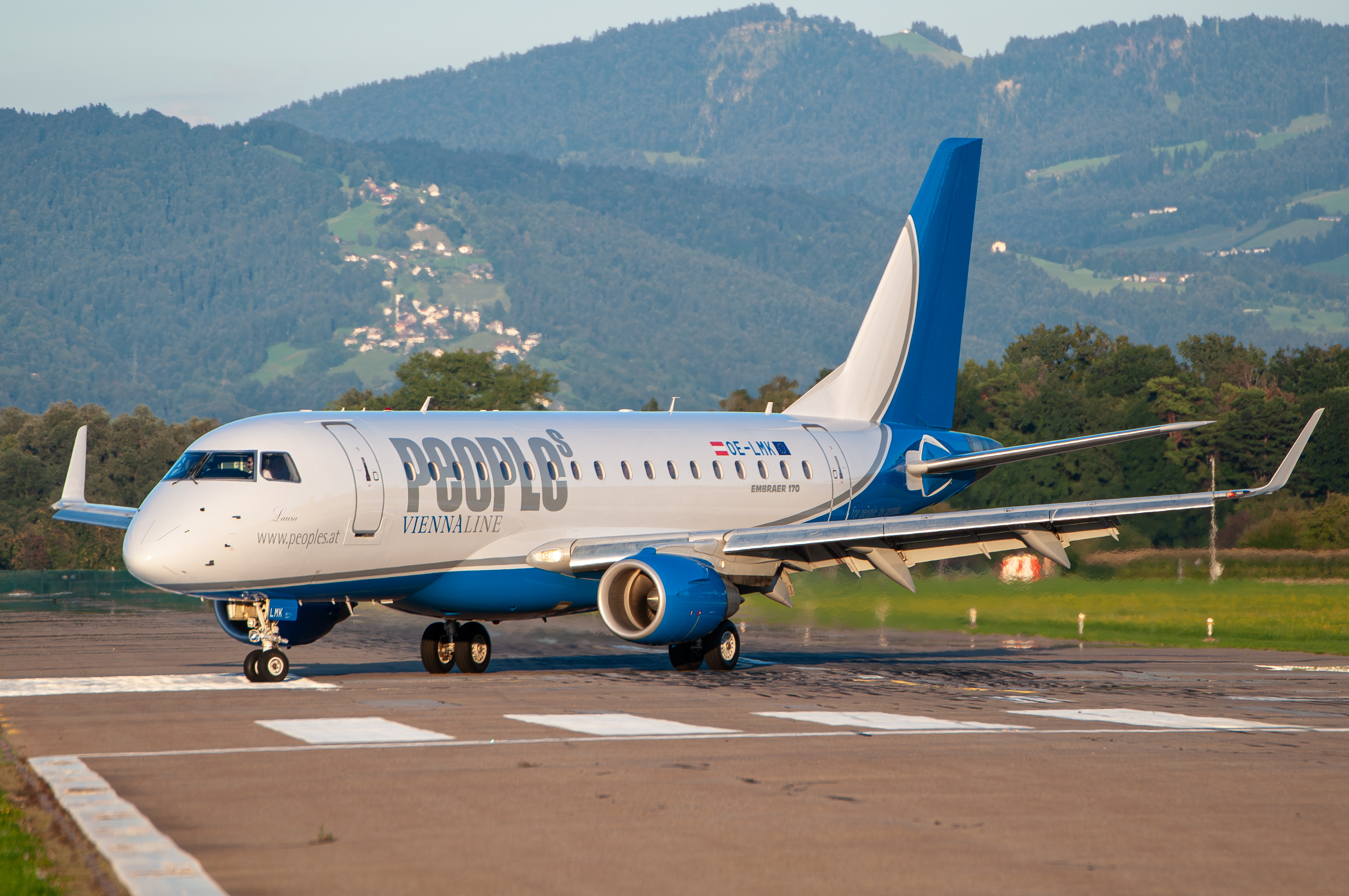 People’s Viennaline Embraer E-170-100, Registration: OE-LMK landing at St. Gallen-Altenrhein Airport (LSZR)